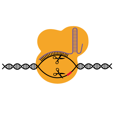 CRISPR / Cas9 (Orange)